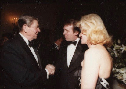 Ronald Reagan shaking hands with Donald Trump. Ivana Trump is standing beside.